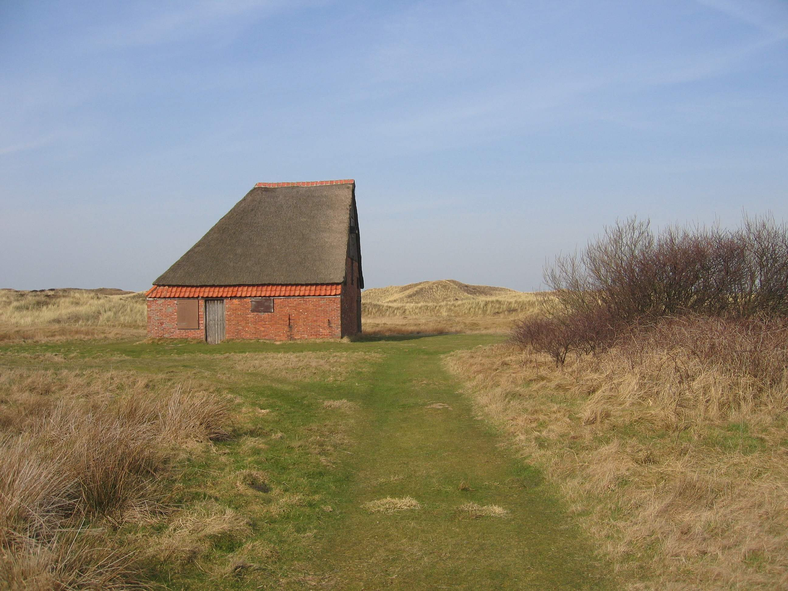 Typical sheep barn on the island of Texel, Netherlands.